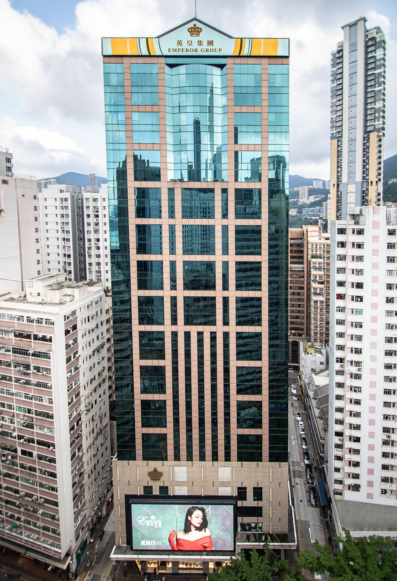 Emperor Group Centre Hong Kong 英皇集團中心